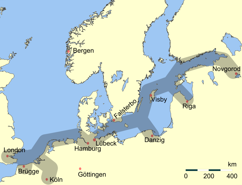 Main trading routes of the Hanseatic League in northern Europe.